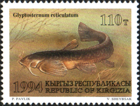 Stamp of Kyrgyzstan